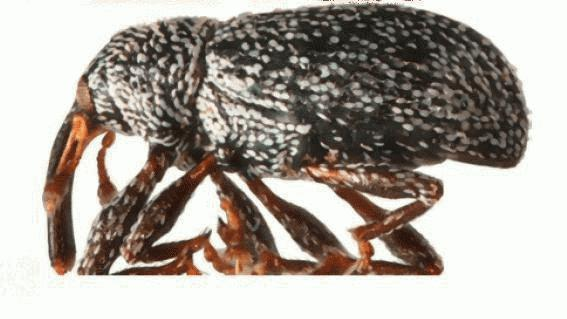 ZooKeys - Epimechus hesperius Cut-out from original (Anthonomini species - ZooKeys-260-031-g008.jpeg) shown below